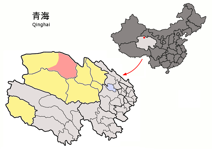 Location of Da Qaidam Administrative Committee (pink) and Haixi Prefecture (yellow) within Qinghai province of China Map drawn in september 2007 using various sources, mainly : Qinghai province administrative regions GIS data: 1:1M, County level, 1990 Qinghai Counties map from "Plateau Perspectives" (the limits of some county-level subdivisions may not be accurate)